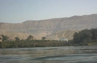 17:42, 27 March 2005 Plugwash 320x208 (11607 bytes) (remove watermarks) 13:57, 20 October 2002 Aoineko 320x240 (13546 bytes) (New version with lighter text) 16:55, 31 July 2002 Aoineko 320x240 (42204 bytes) (update) 08:35, 31 July 2002 Aoineko 320x240 (64610 bytes)